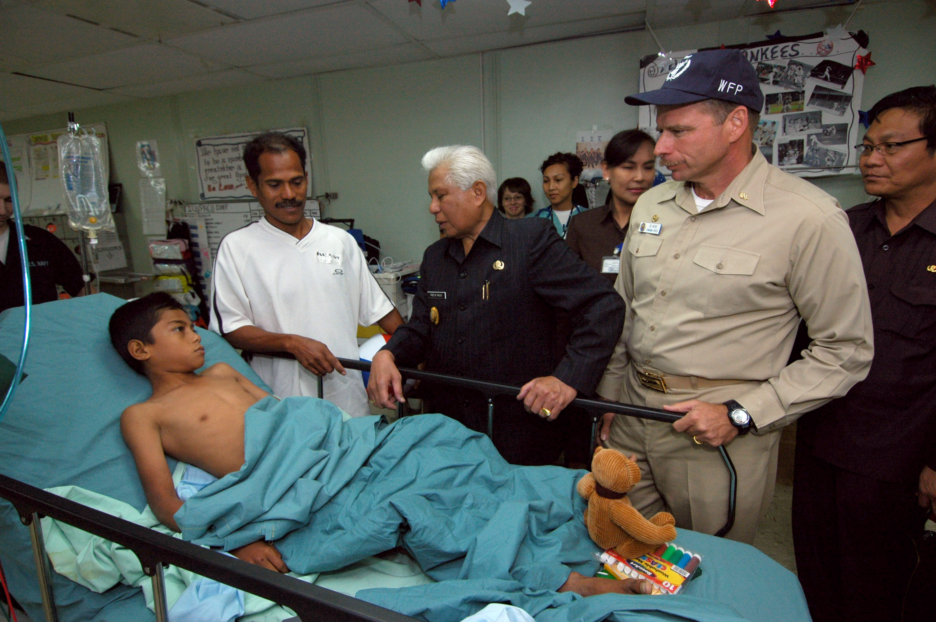 Kupang, Indonesia (Aug. 25, 2006) - U.S. Navy Capt. Joseph Moore, commanding officer of the Medical Treatment Facility aboard the Military giving a tour to the Honorable Piet Tallo, the governor of East Nusa Tenggara. Mercy is in the fourth month of her five-month humanitarian and civic assistance deployment to South and Southeast Asia where her crew has already treated thousands of people. U.S. Navy photo by Mass Communication Specialist Seaman Mike Leporati (RELEASED)